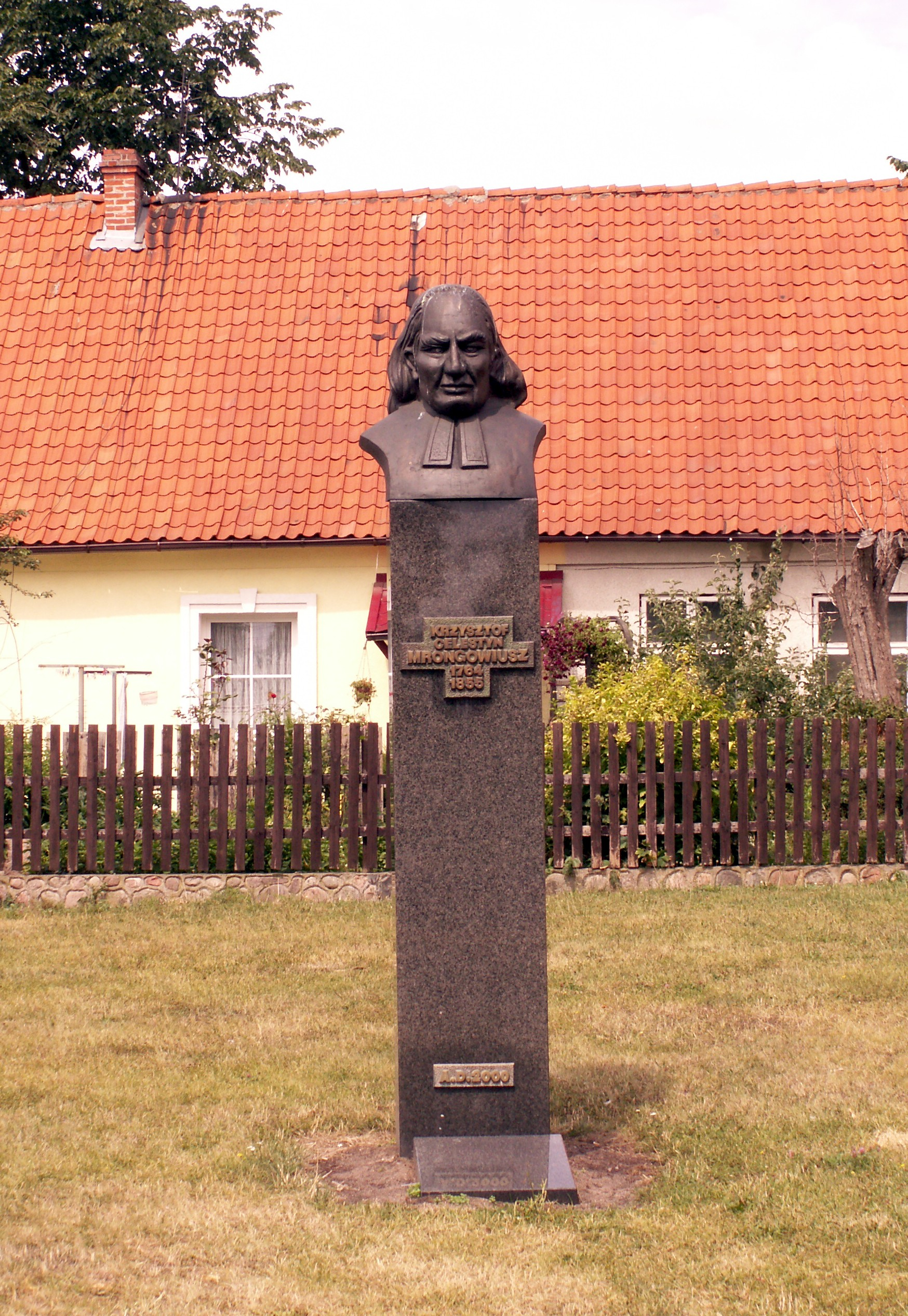 Olsztynek Mrongovius